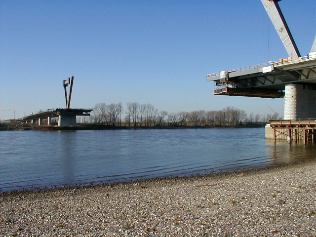 Flughafen bridge in Düsseldorf under construction